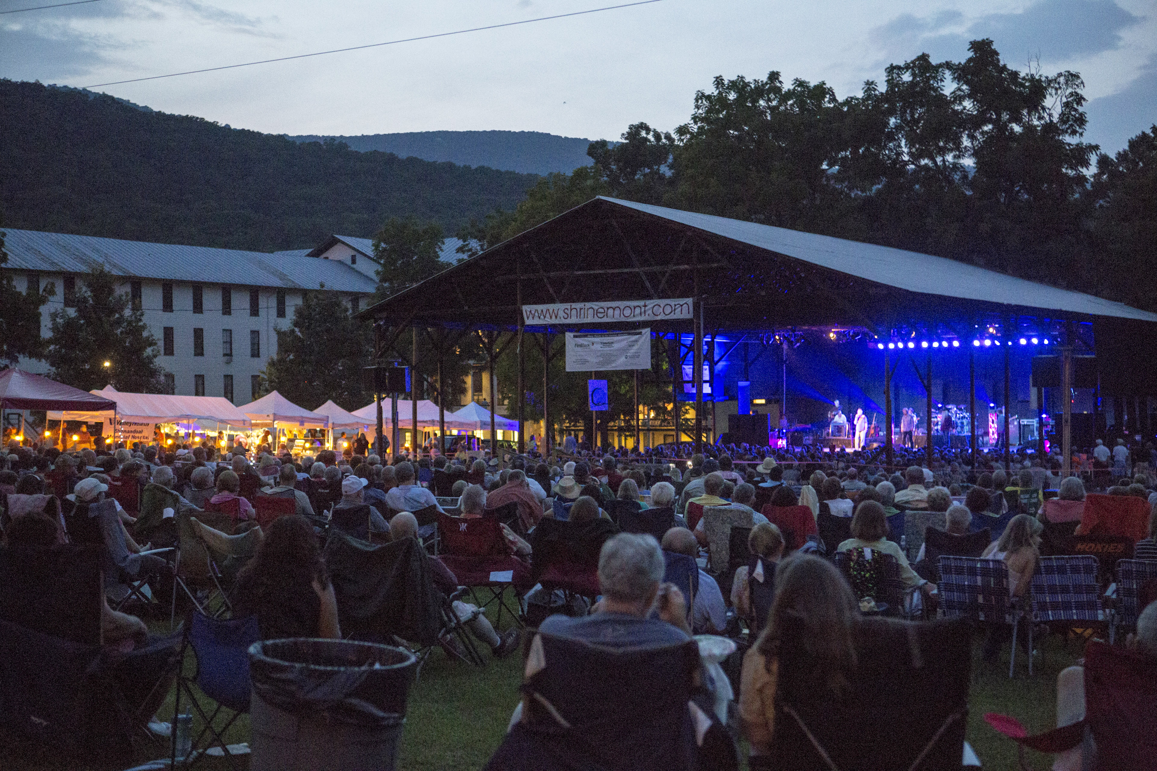 Shrine Mont, in Orkney Springs, VA, venue of the SVMF